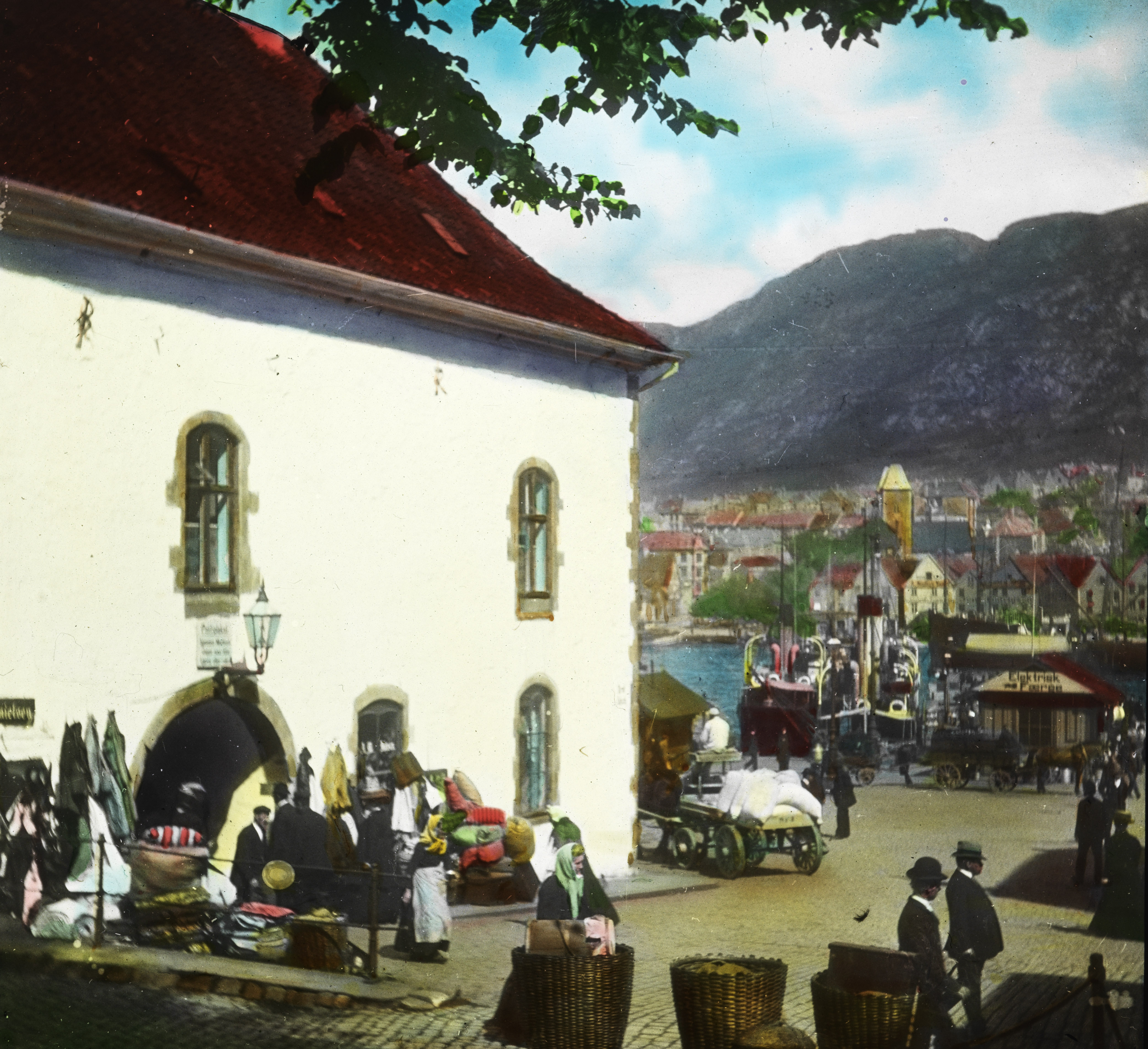 SFFf-1992078.0046 "Murhvelvingen", the white stone building to the left, was built in 1561 as a private residence for Erik Ottesen Rosenkrantz.